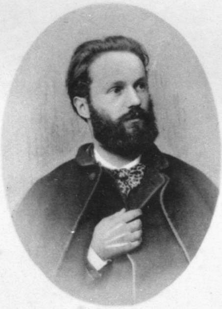 Adolf Gnauth (1840-1884), german architect (Portrait)